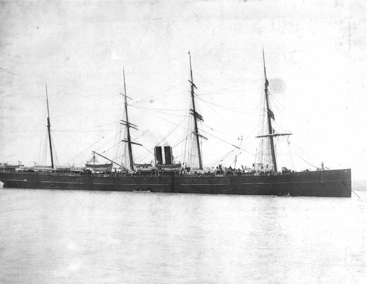 SS City of Peking preparing to sail from San Francisco for Manila, with U.S. troops on board, 25 May 1898.